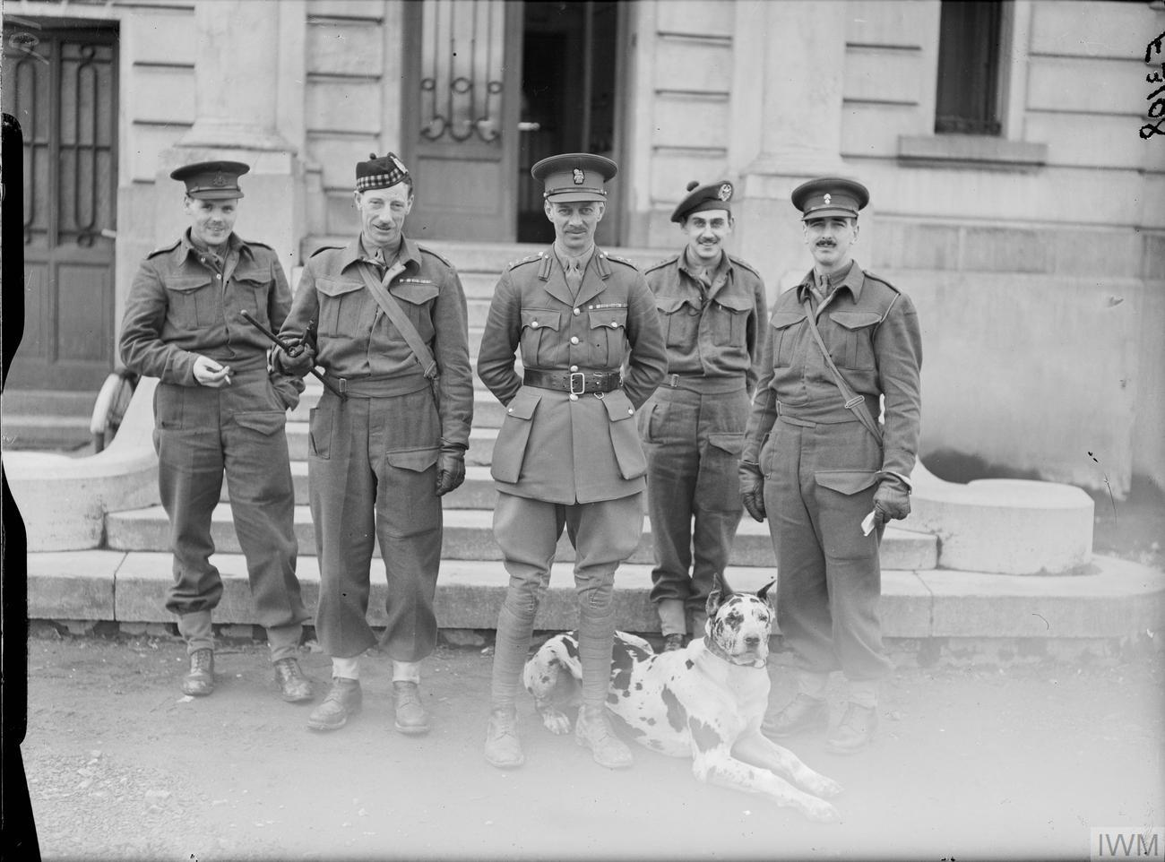 British Generals 1939-1945 General Sir Miles Dempsey (1896 - 1969): Dempsey, OC 13th Infantry Brigade and his staff, with their mascot 'Tiny' at Wervicq, France.